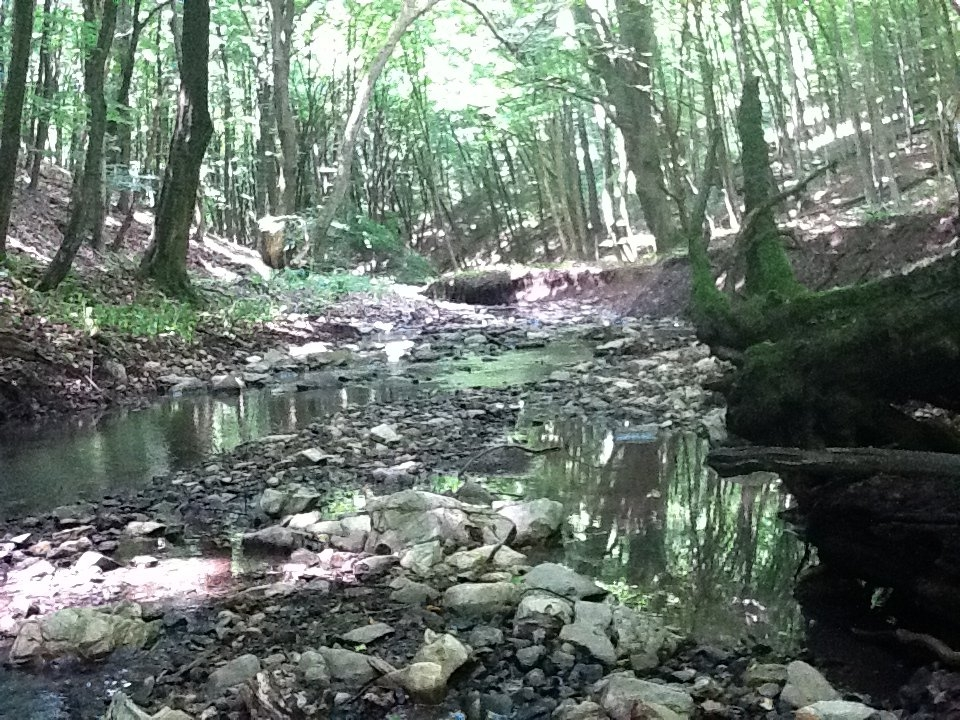 Hidasi valley, Mecsek mountains in Southern Hungary, near Hosszúhetény village. Fallen tree.